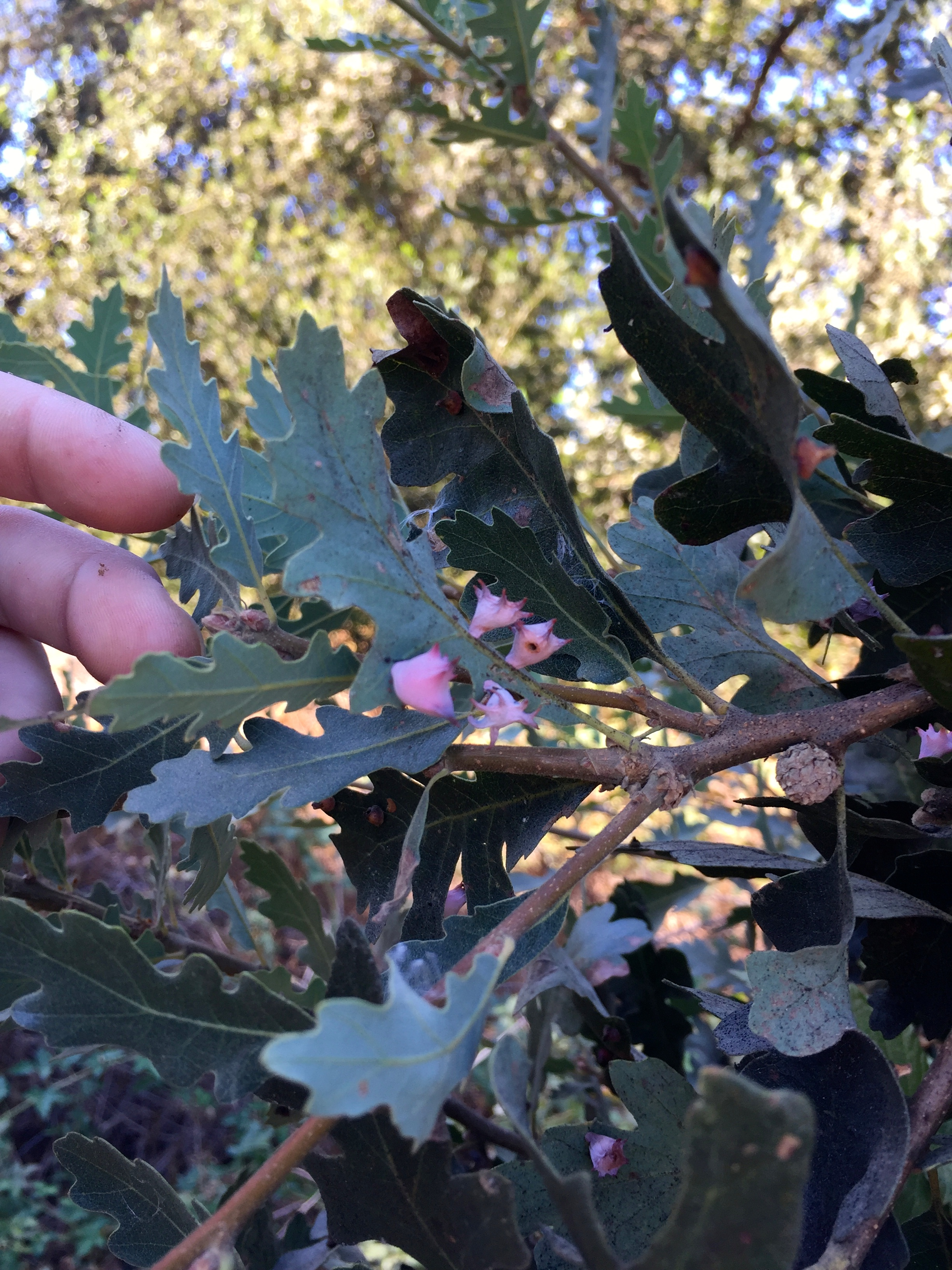 Spined Turbin Gall Wasp on Quercus lobata leaves